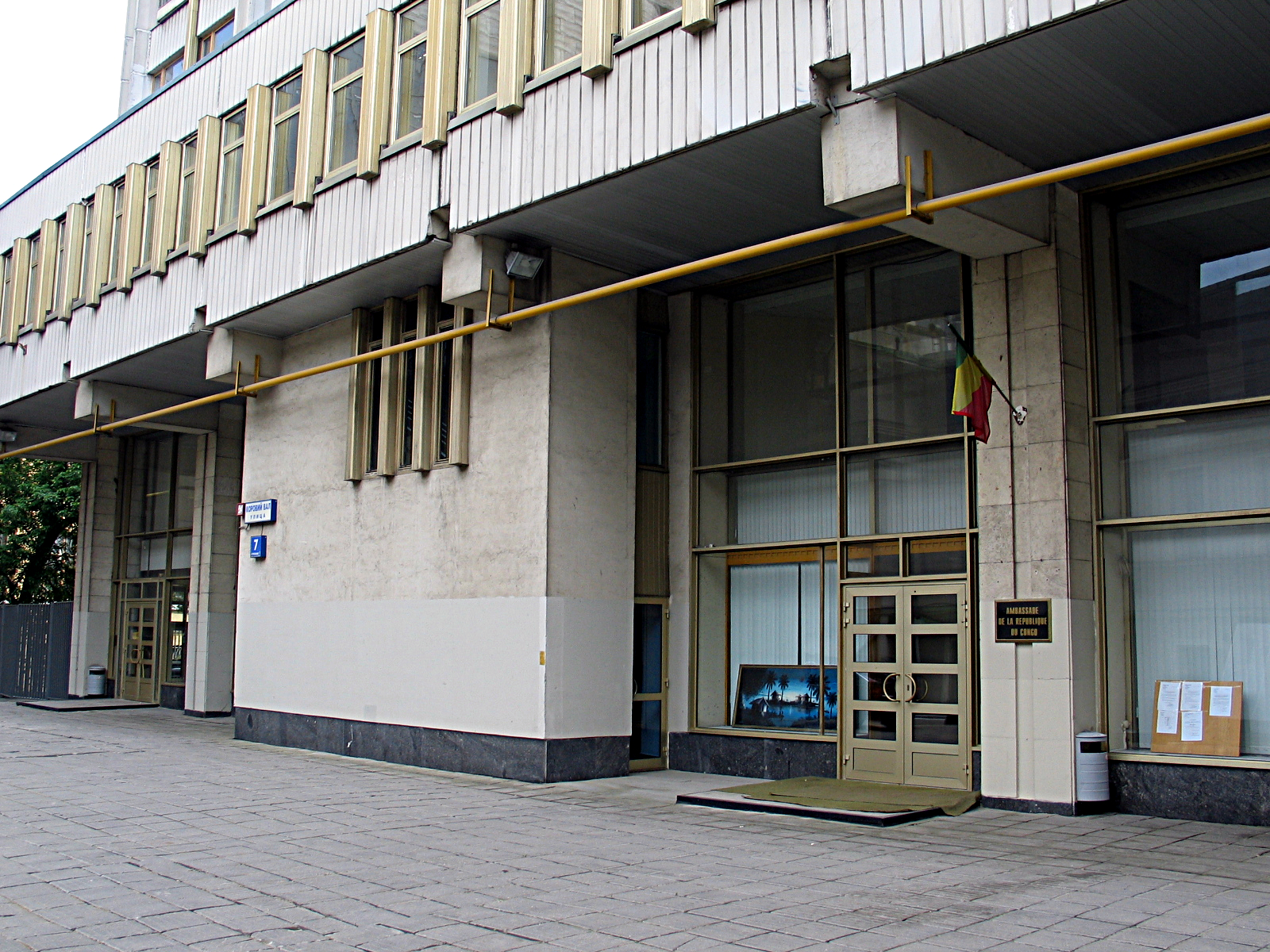 Embassy of the Republic of the Congo in Moscow (Koroviy Val Street, 7/1)